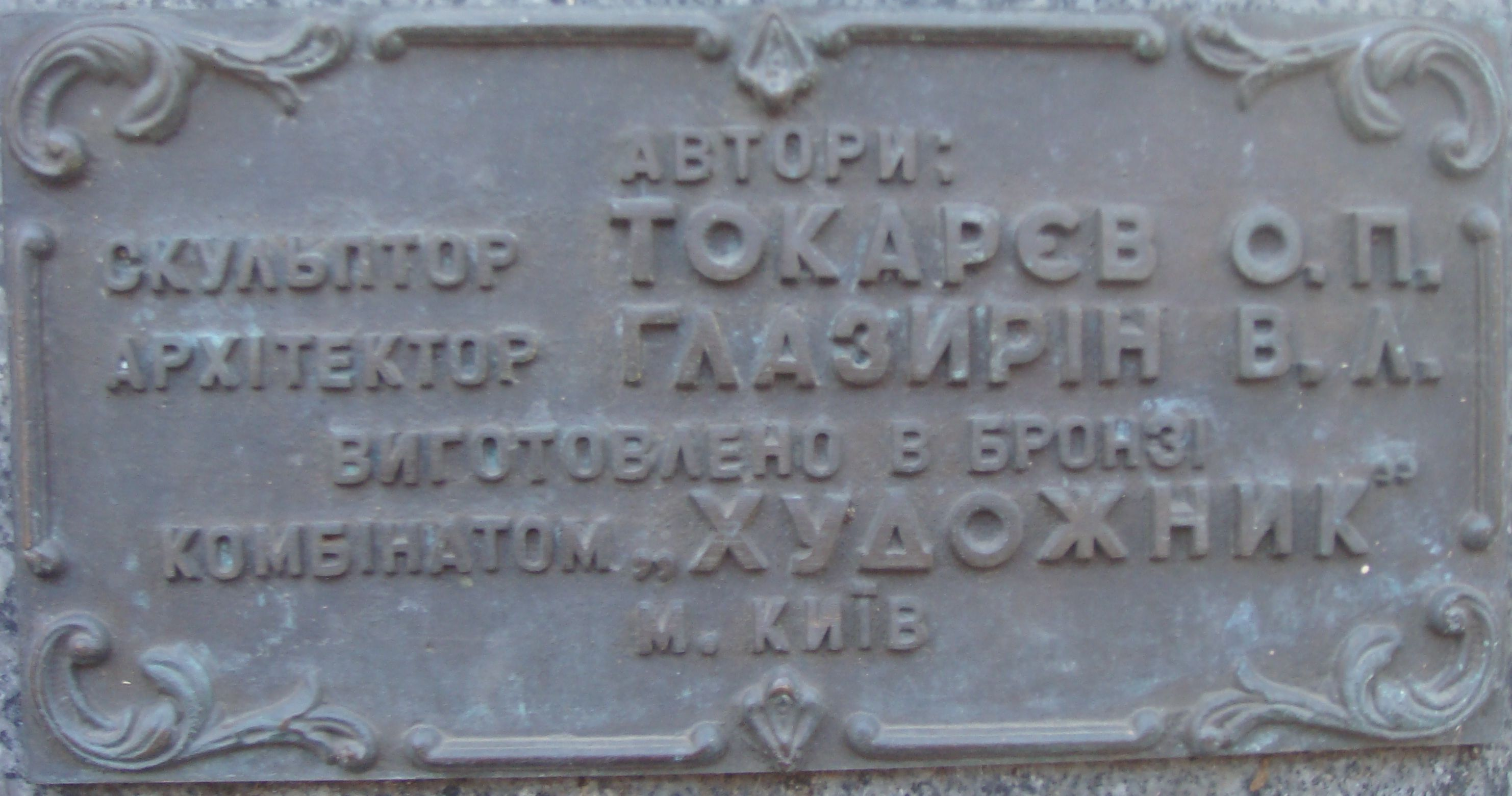 Information plaque on the monument of russian silent film star Vera Kholodnaya